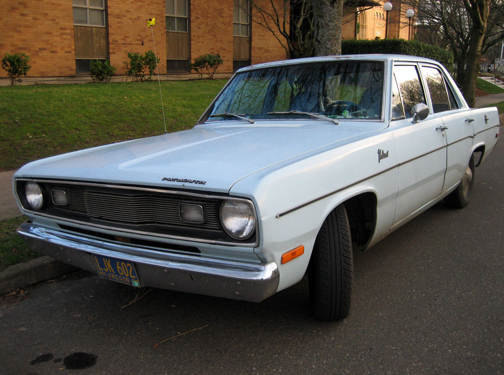 1970 Plymouth Valiant